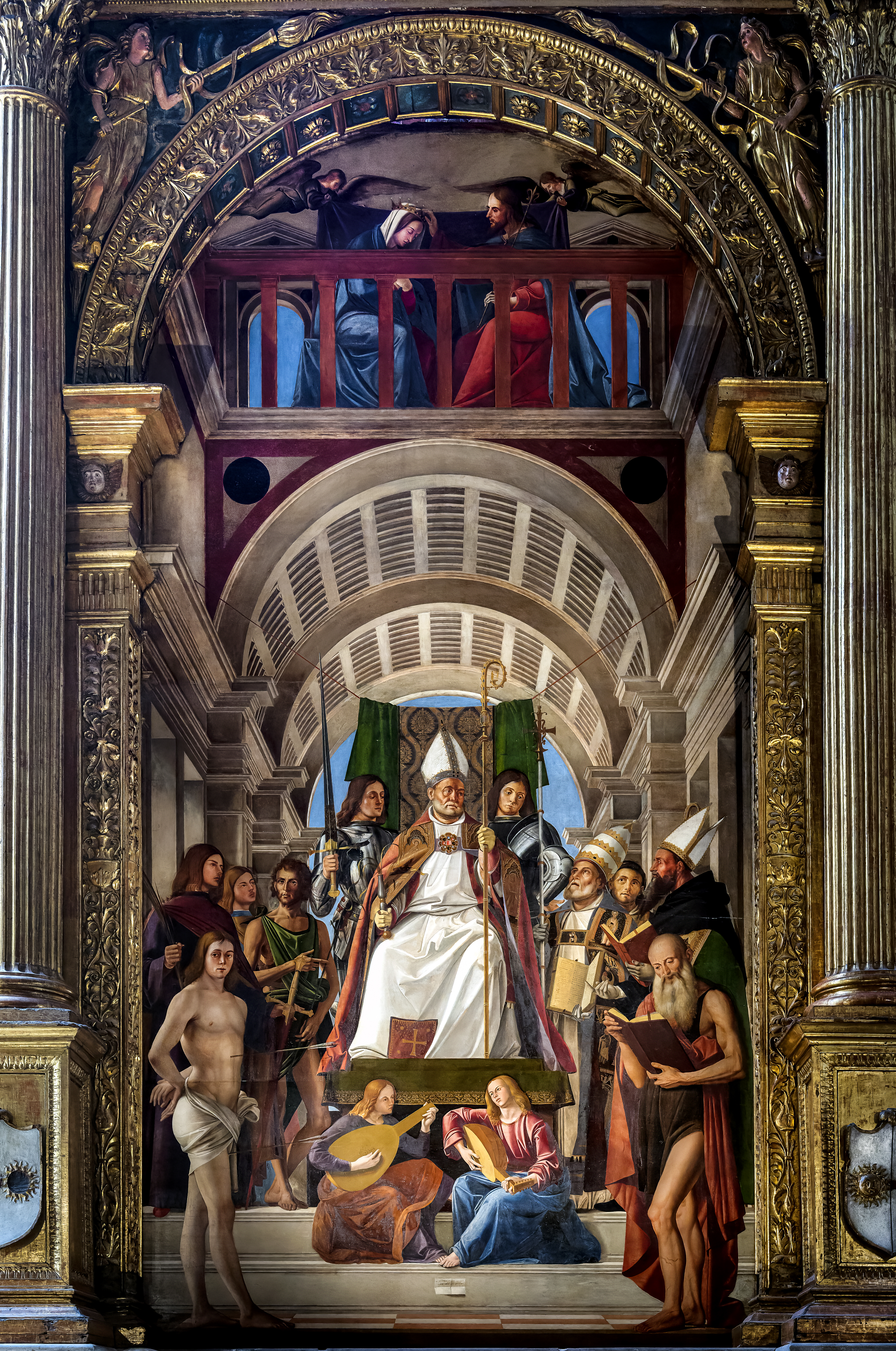 At the center of the picture Ambroise of Milan sitting on a throne. On his left, Gregory the Great, St. Augustine and St. Jerome, on the right St. John the Baptist, St. Sebastian and St. Louis of Toulouse. In the upper part of the picture Christ crowns the Virgin Mary